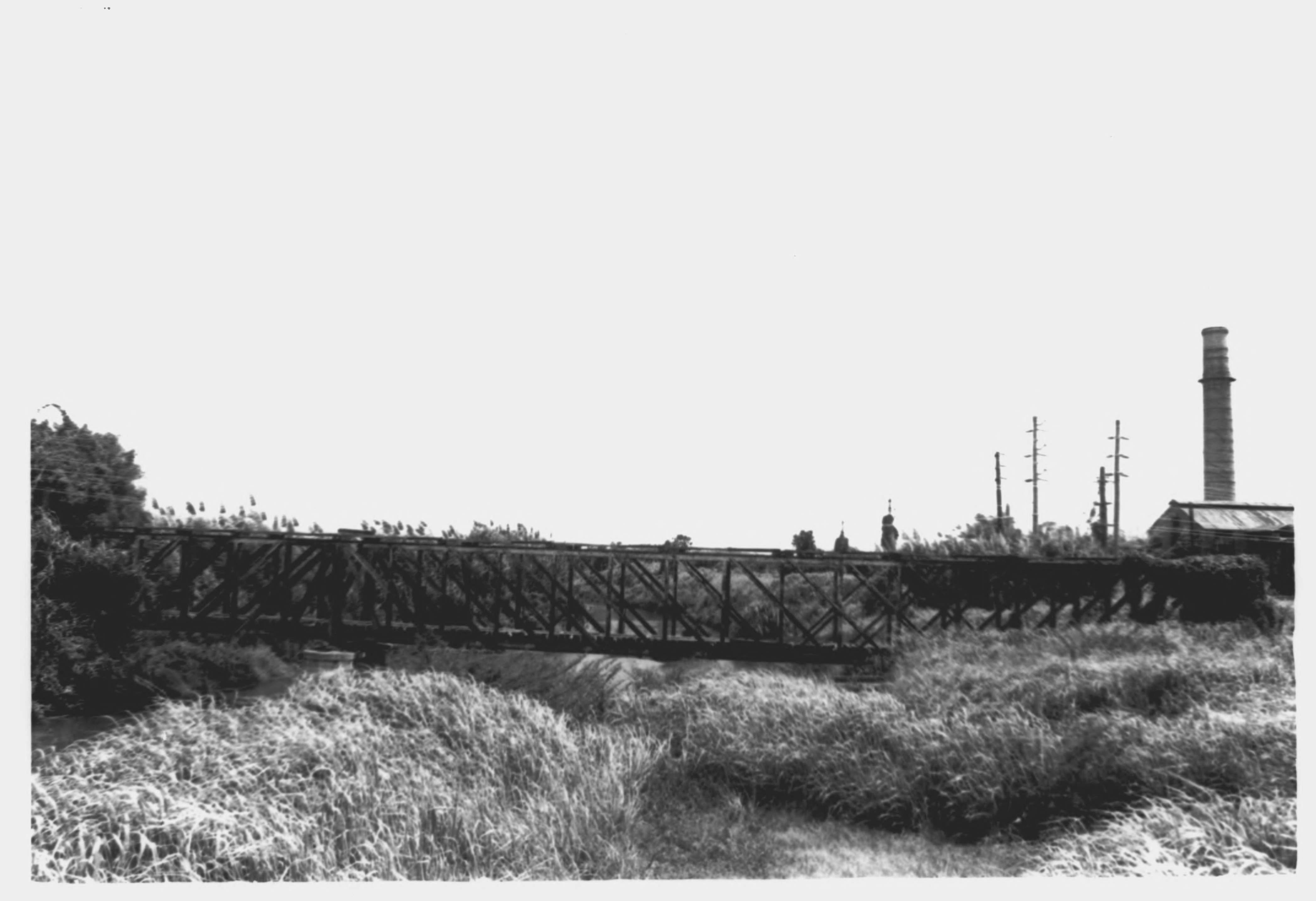 Cambalache Bridge Over Rio Grande de Arecibo, W of PR 2, Barrios Tanama and Cambalache